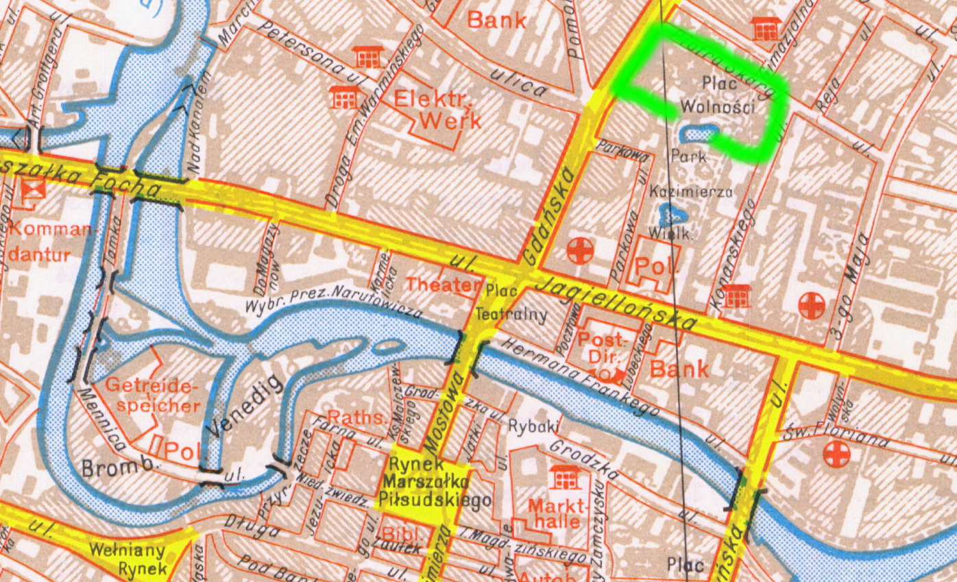 Zoom Wolnosci square (Bydgoszcz) 1939